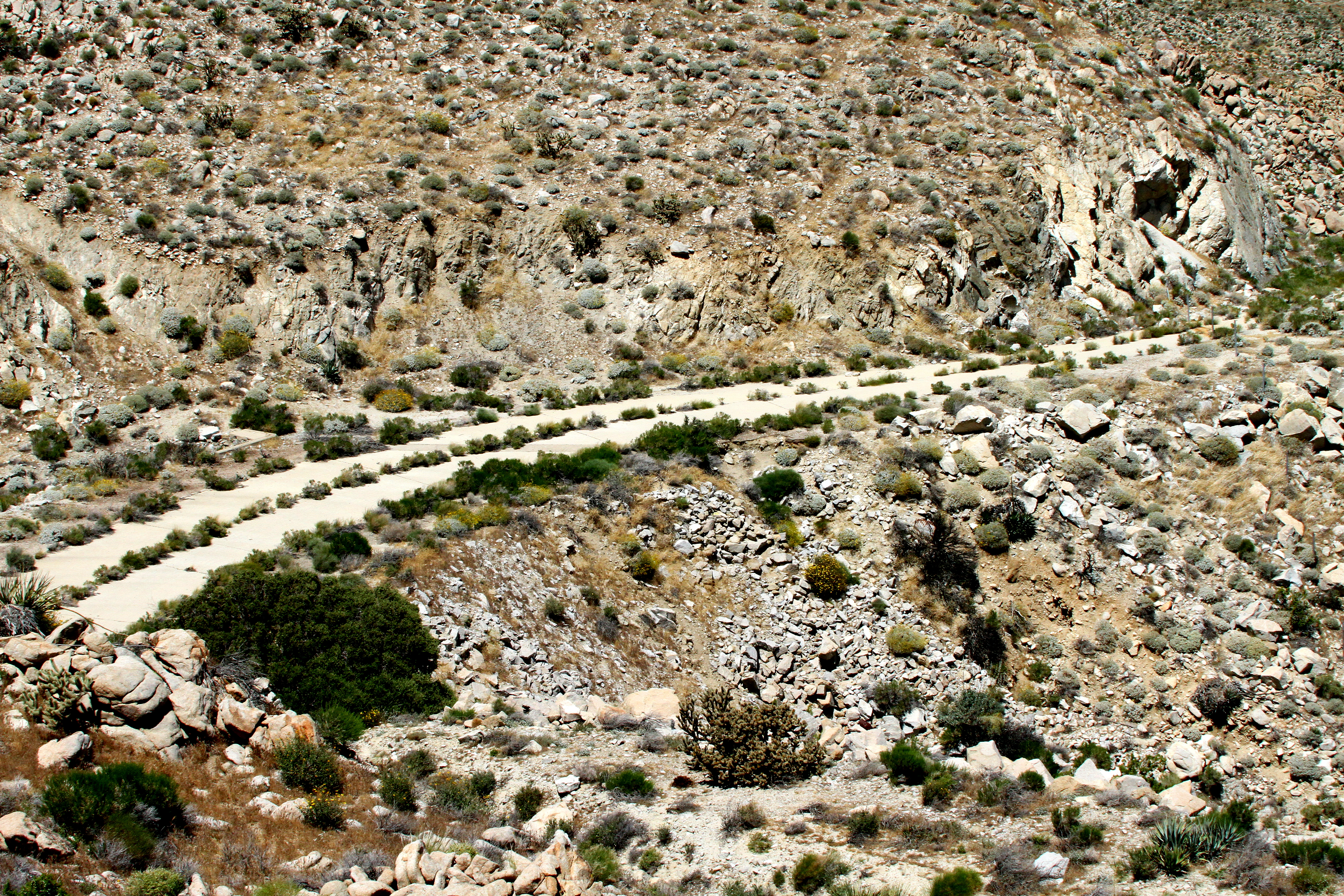 The roadway over the SanDiego mountains was US-80. This is a section of the old roadway--now abandoned--visible for the most part, only from high in the mountainous terrain. The In-Ko-Pa grade of the roadway descends almost 4000 vertical feet in 11 miles thru two separate canyons on the east side of the mountains. At one point the east and west-bound lanes are separated by 1.5 miles. The eastbound lane follows the route of the original US-80, while the westbound lane takes the newer route. Interstate 8 replaced US-80 in 1964.